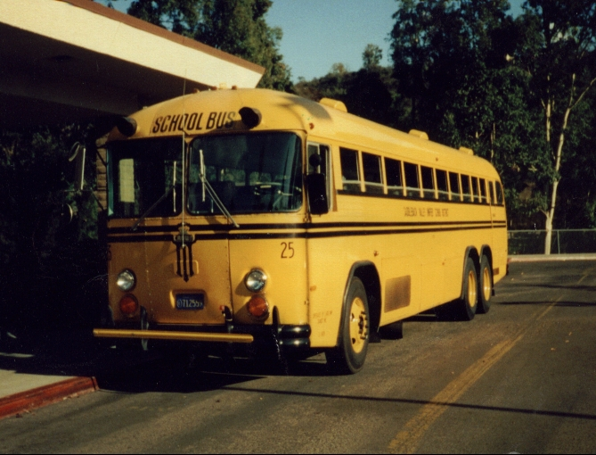 Saddleback Valley Unified School District Buslady 01:17, 16 February 2007 (UTC) 1978 Crown Supercoach #25 Taken by The Buslady, Driven by the Buslady (that's me)